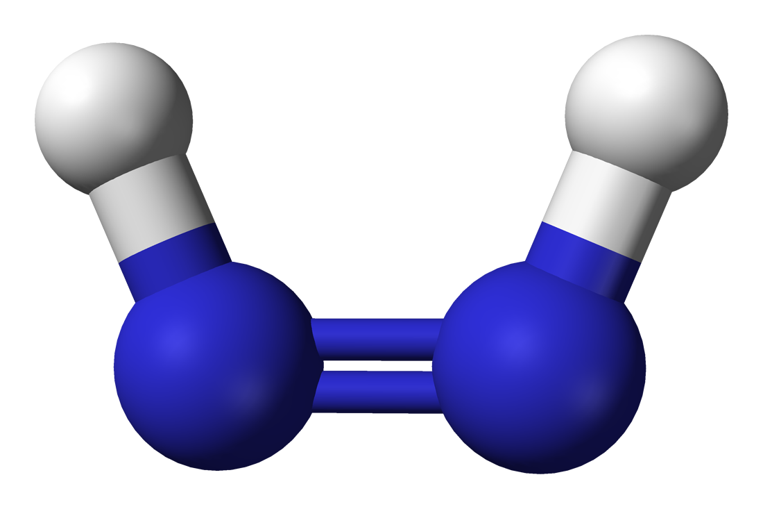 Ball-and-stick model of the cis-diazene molecule, N2H2